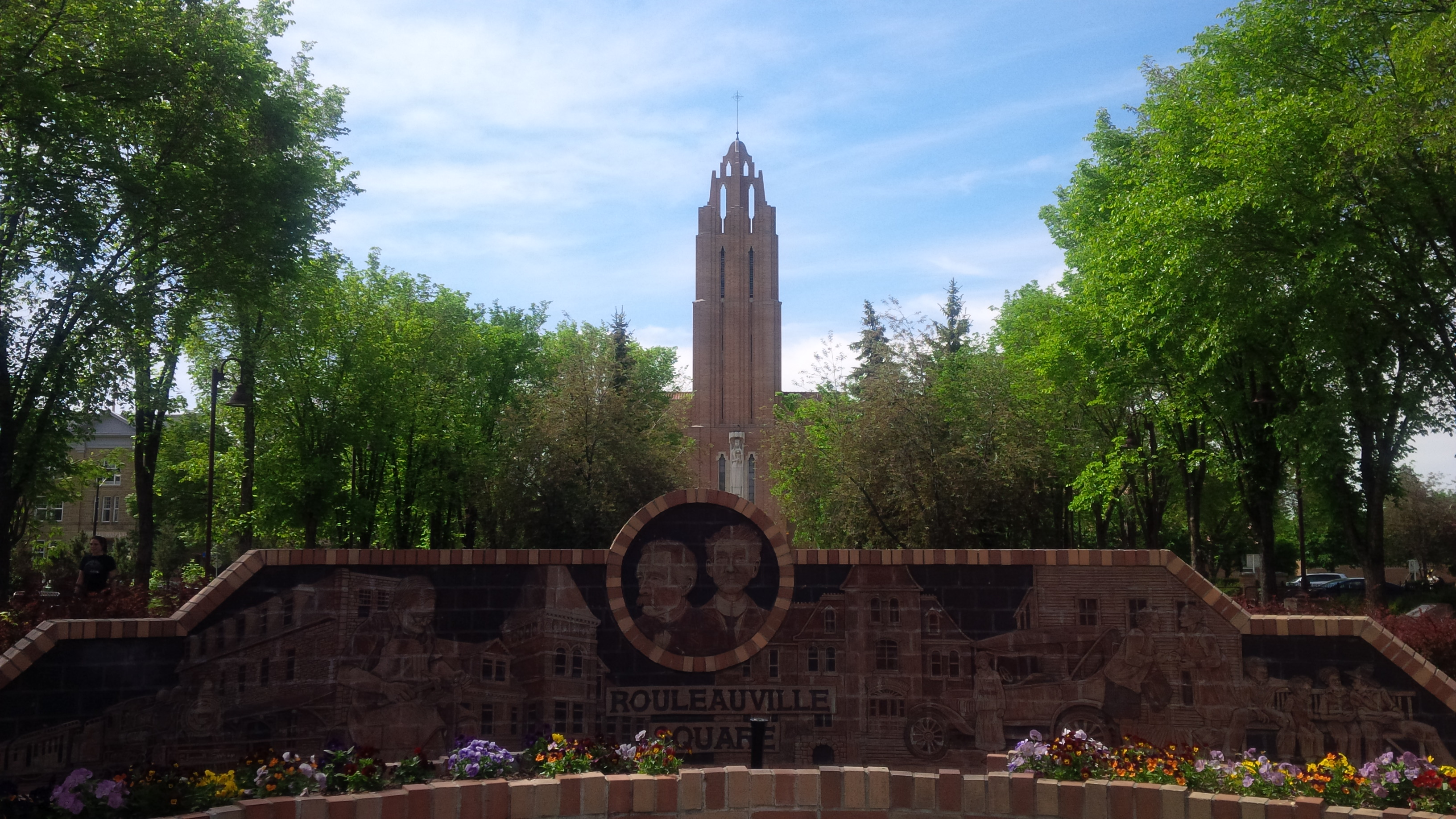 St. Mary Cathedral Calgary